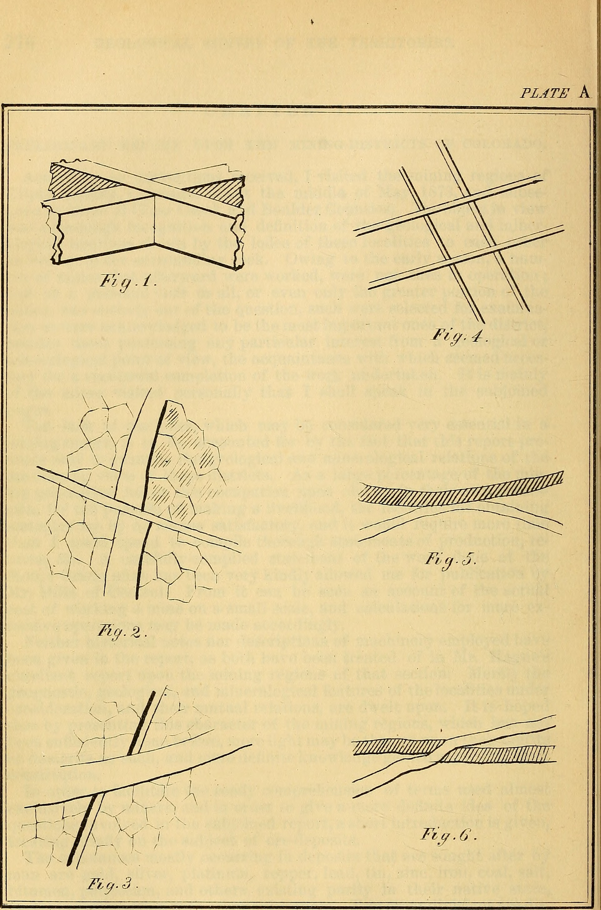 Title: Annual report. 1st-12th, 1867-1878 Year: 1867 (1860s) Authors: Geological and Geographical Survey of the Territories (U. S. ); United States. General Land Office; United States. Dept. of the Interior Subjects: Geology Publisher: Washington, Govt. Print. Off. Text Appearing Before Image: ' Text Appearing After Image: '